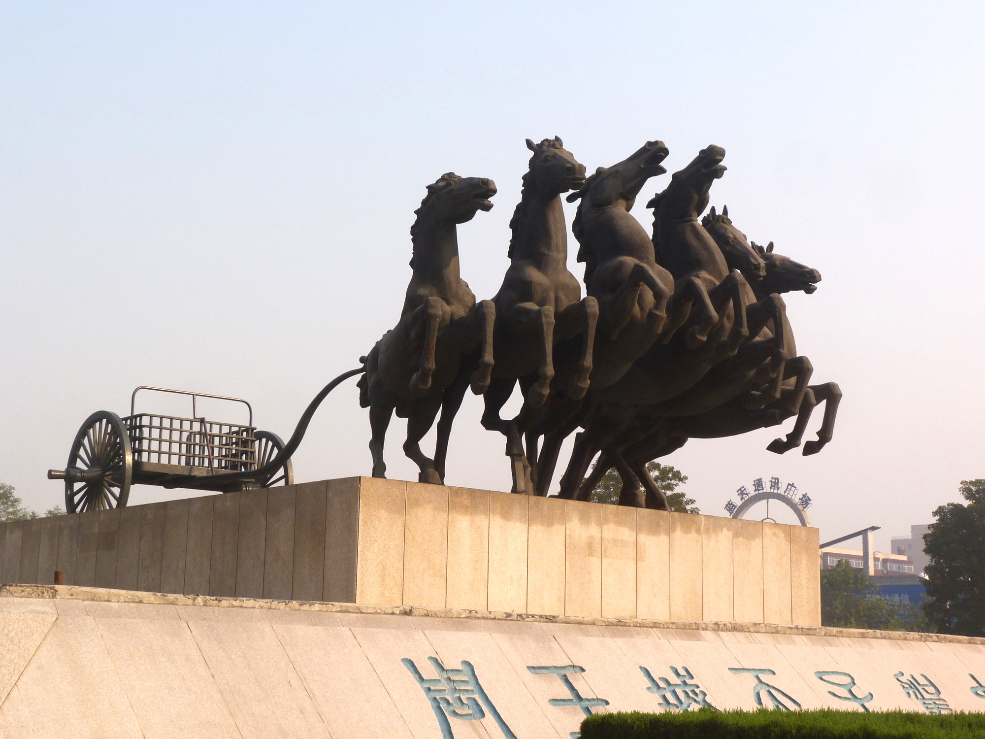 Luoyang Imperial City Park